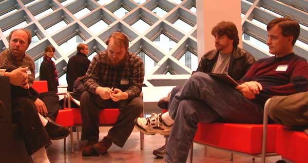 Wikipedia:Meetup/Seattle in the Seattle Public Library (taken Nov. 6, 2004) © 2004 Matthew Trump